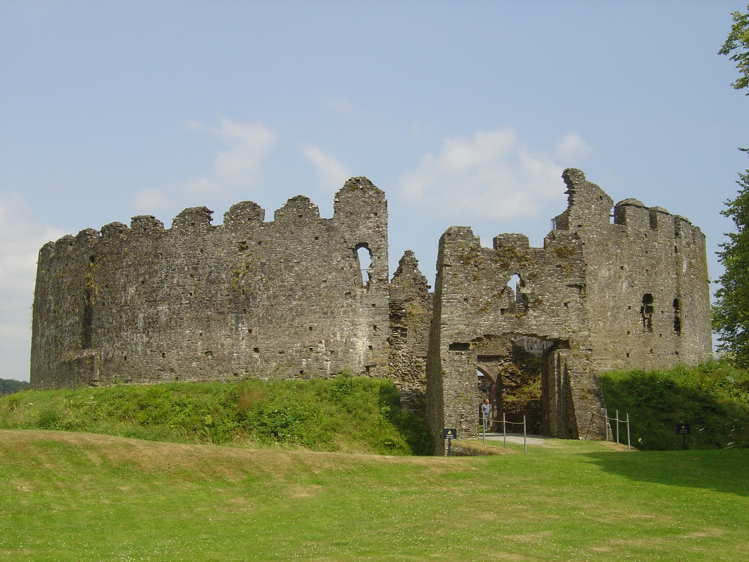 Photo of Restormel Castle by User:Zaian